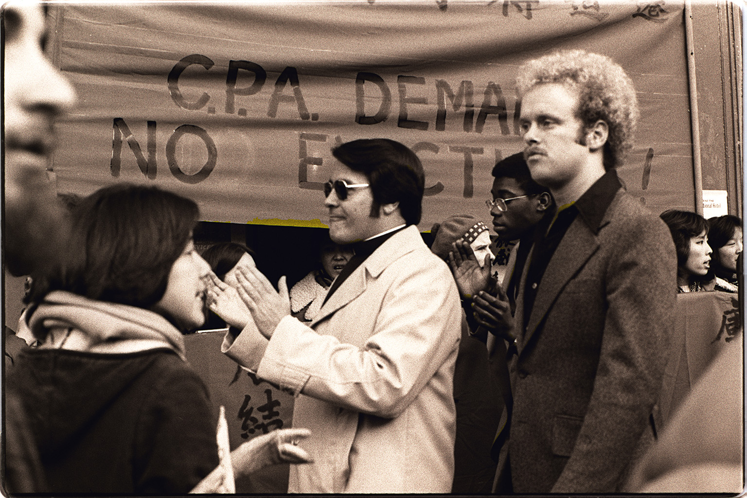 Reverend Jim Jones (left)and Tim Tupper (behind Jones), a Temple bodyguard and an adopted son of Jim Jones) of Peoples Temple on Kearny Street in front of the San Francisco International Hotel during a January 16,1977 rally on Sunday to save the hotel's tenants from getting evicted.Jones was Housing Commissioner in San Francisco's city government in the mid-'70s. Banner reads: "C.P.A. (Chinese Progressive Association) Demand : No Evictions") CPA was located on Kearny Street between Jackson and Washington in San Francisco's Manilatown/Chinatown. Photo by Nancy Wong